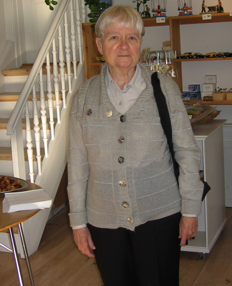 Merete Engel